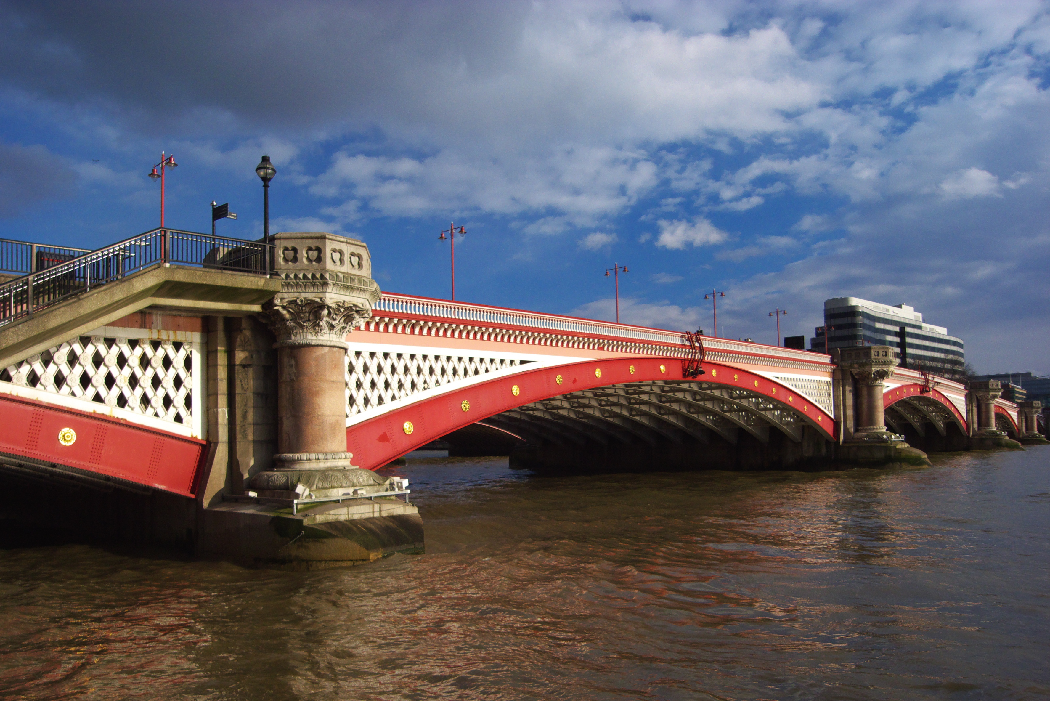 Blackfriars Bridge-Far end is where Calvi was found hanging.